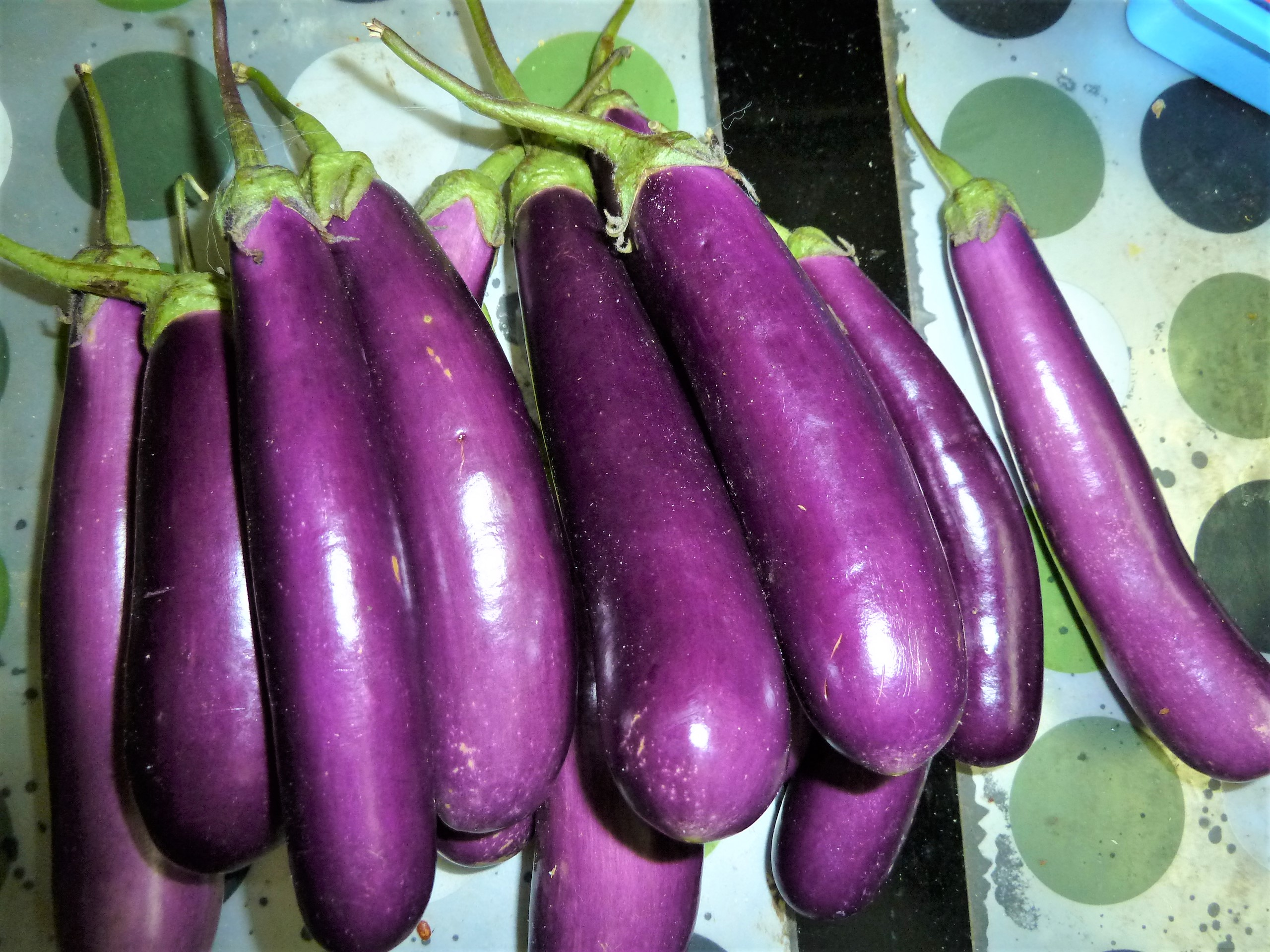 Eleven (11) long, thin purple eggplants near Vijayawada, India